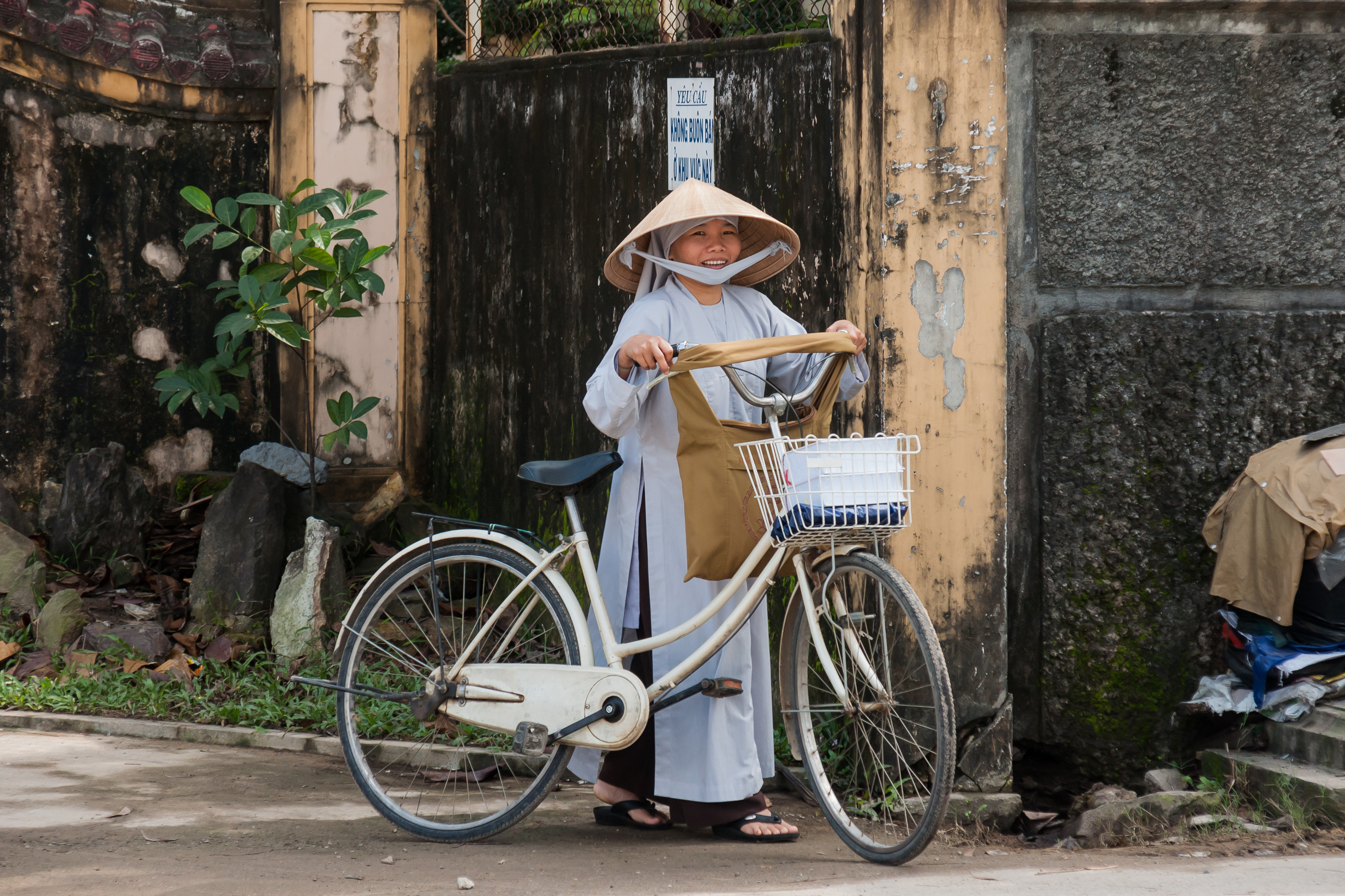 Hue, Vietnam: A Buddhist nun with her bicycle in Hue City.